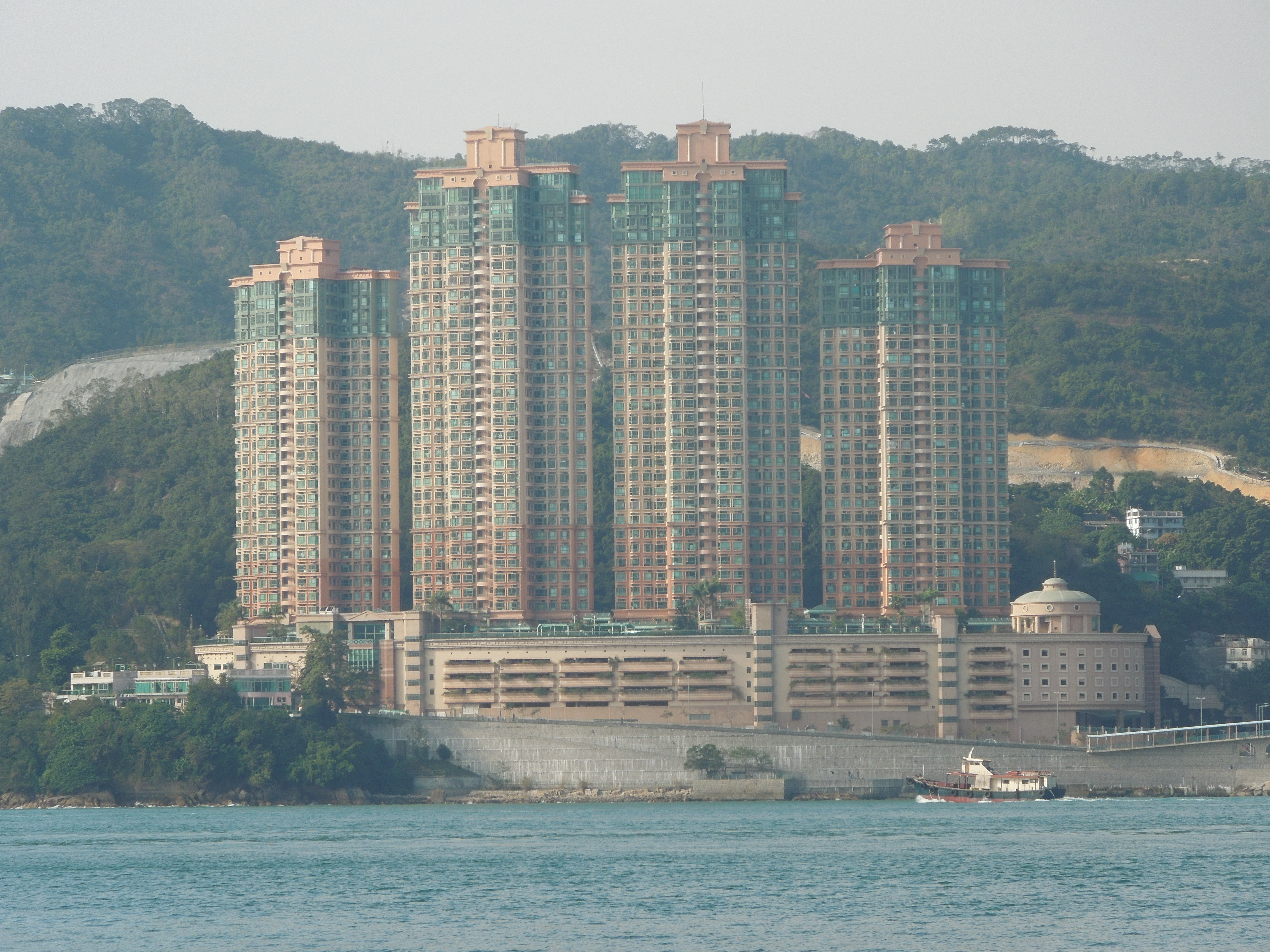 Sea Crest Villa Phase 3 in Sham Tseng, viewed from Pak Wan, Ma Wan